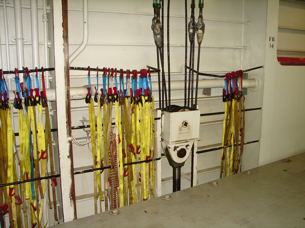 Lashing straps used for cars, onboard a car carrier.